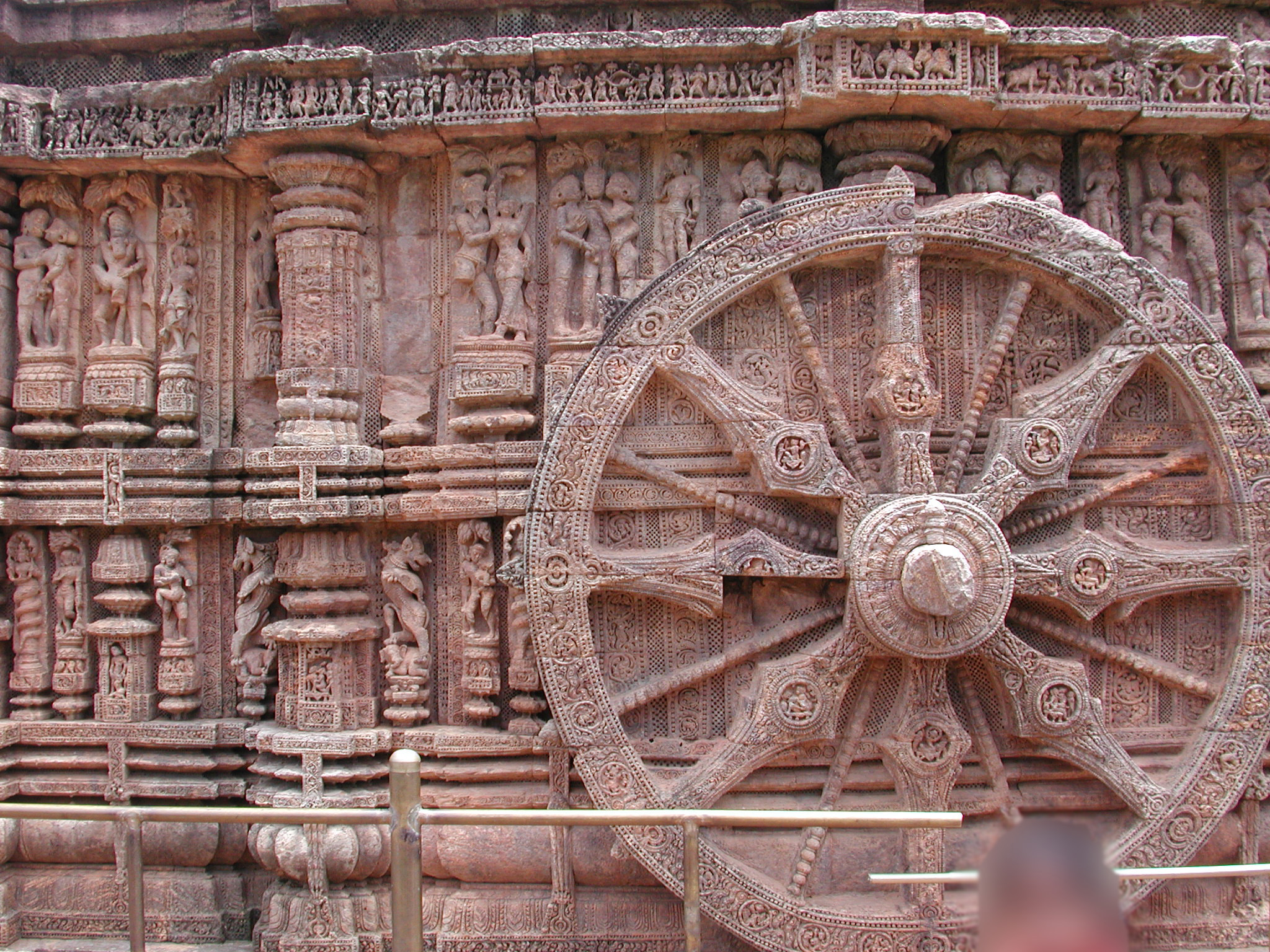 Detail of the artworks at the Sun Temple in Konark, Orissa, India.